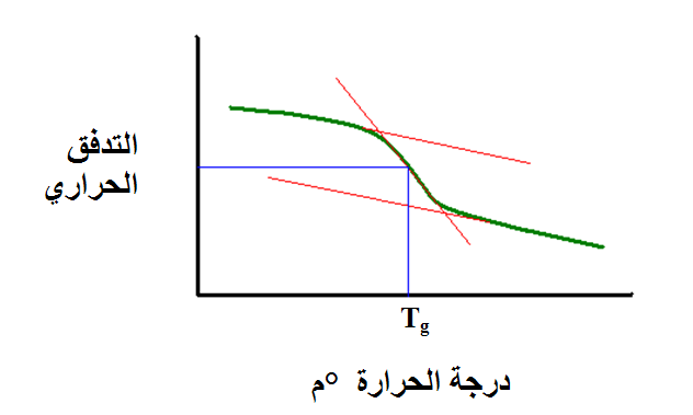 How to find the glass transition temperature from the DSC curve.